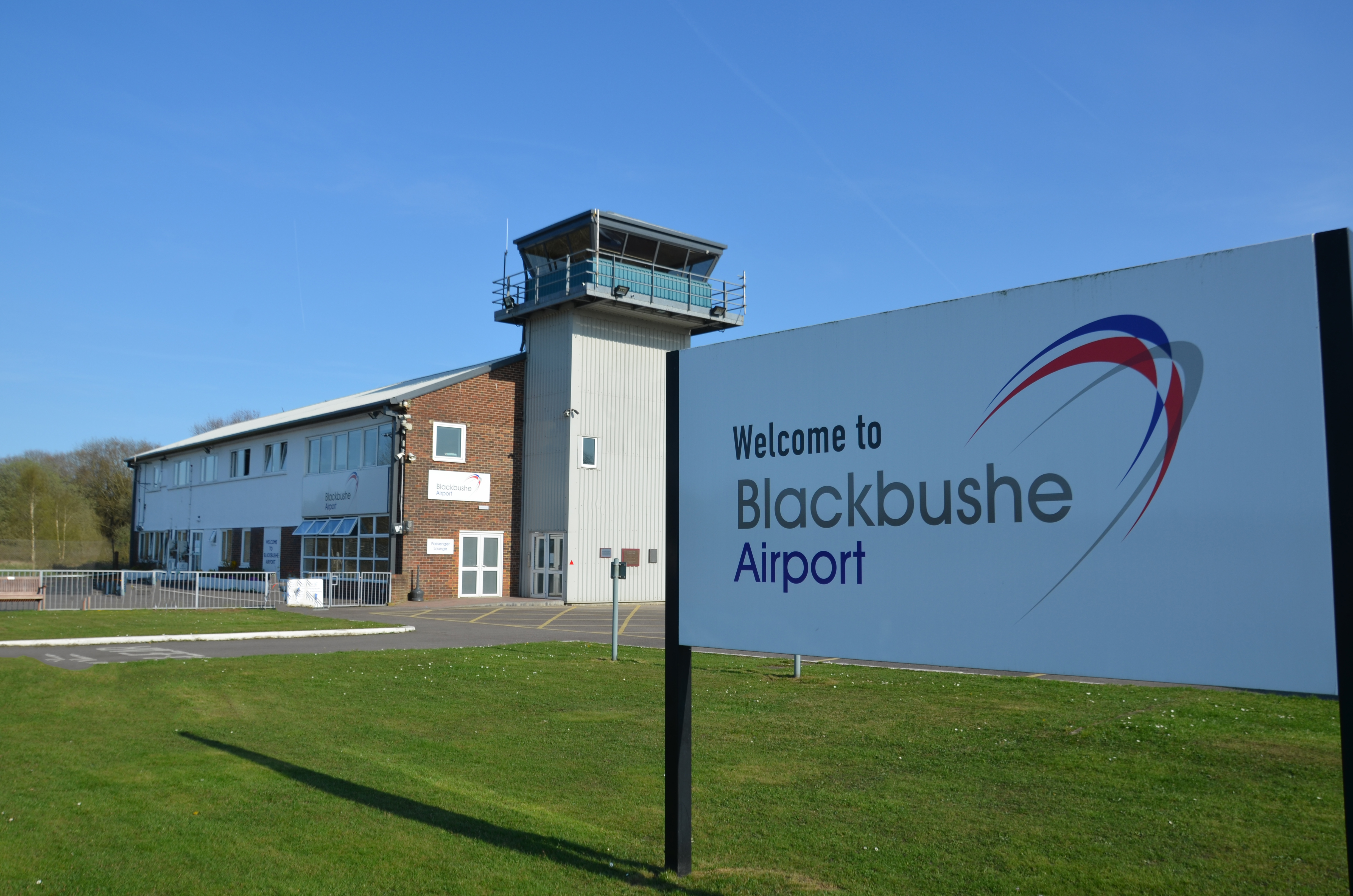 An image from Blackbushe Airport